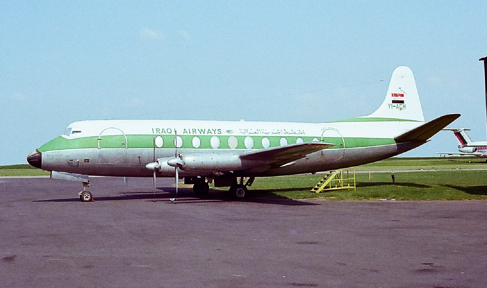 Viscount 735 YI-ACM (Iraqi AW) at East Midlands Airport; written off (damaged beyond repair) 25.10.1979 as G-BFYZ with Alidair on landing at Kirkwall Airport